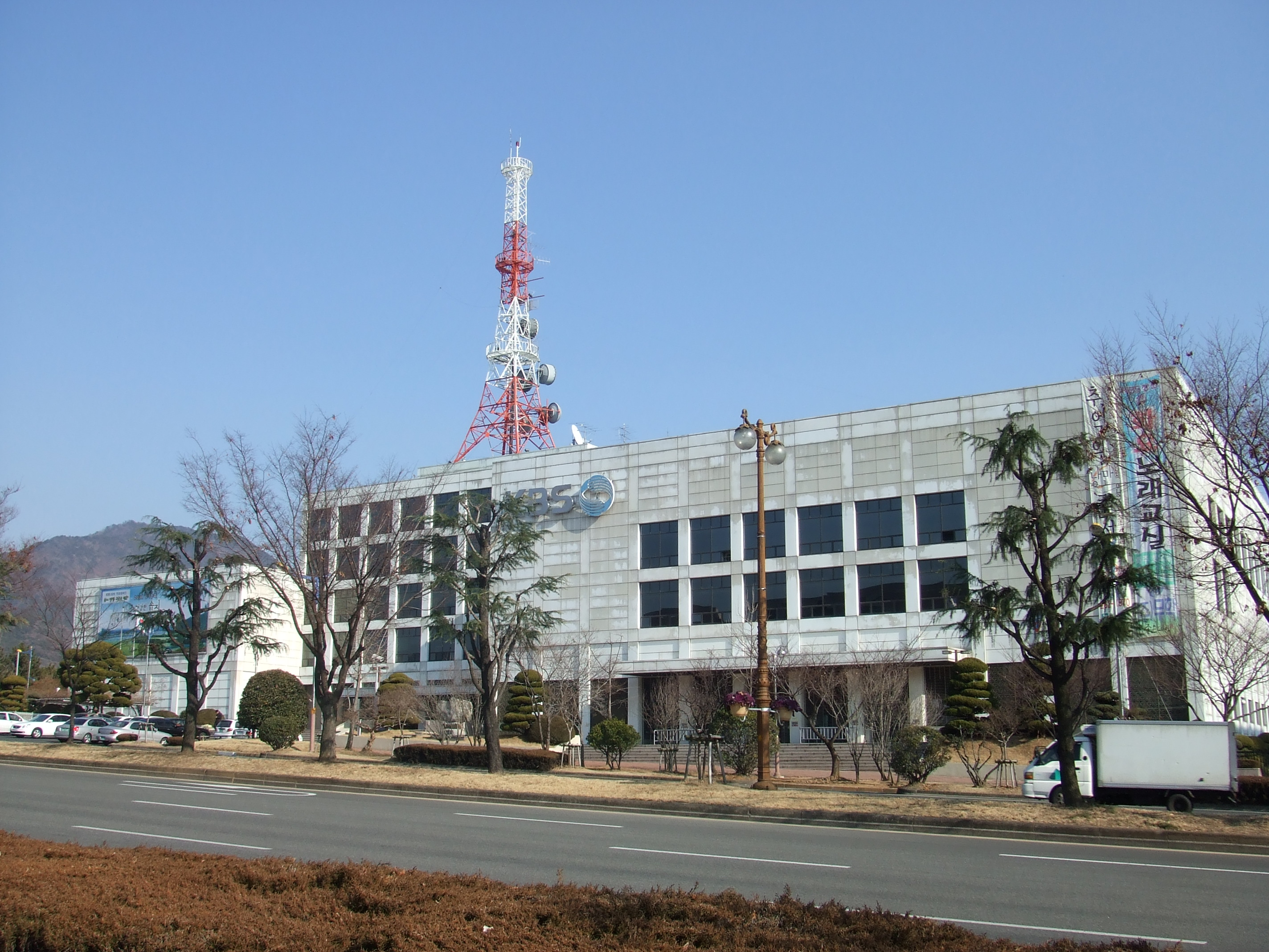 Korean Broadcasting System Building in Changwon.